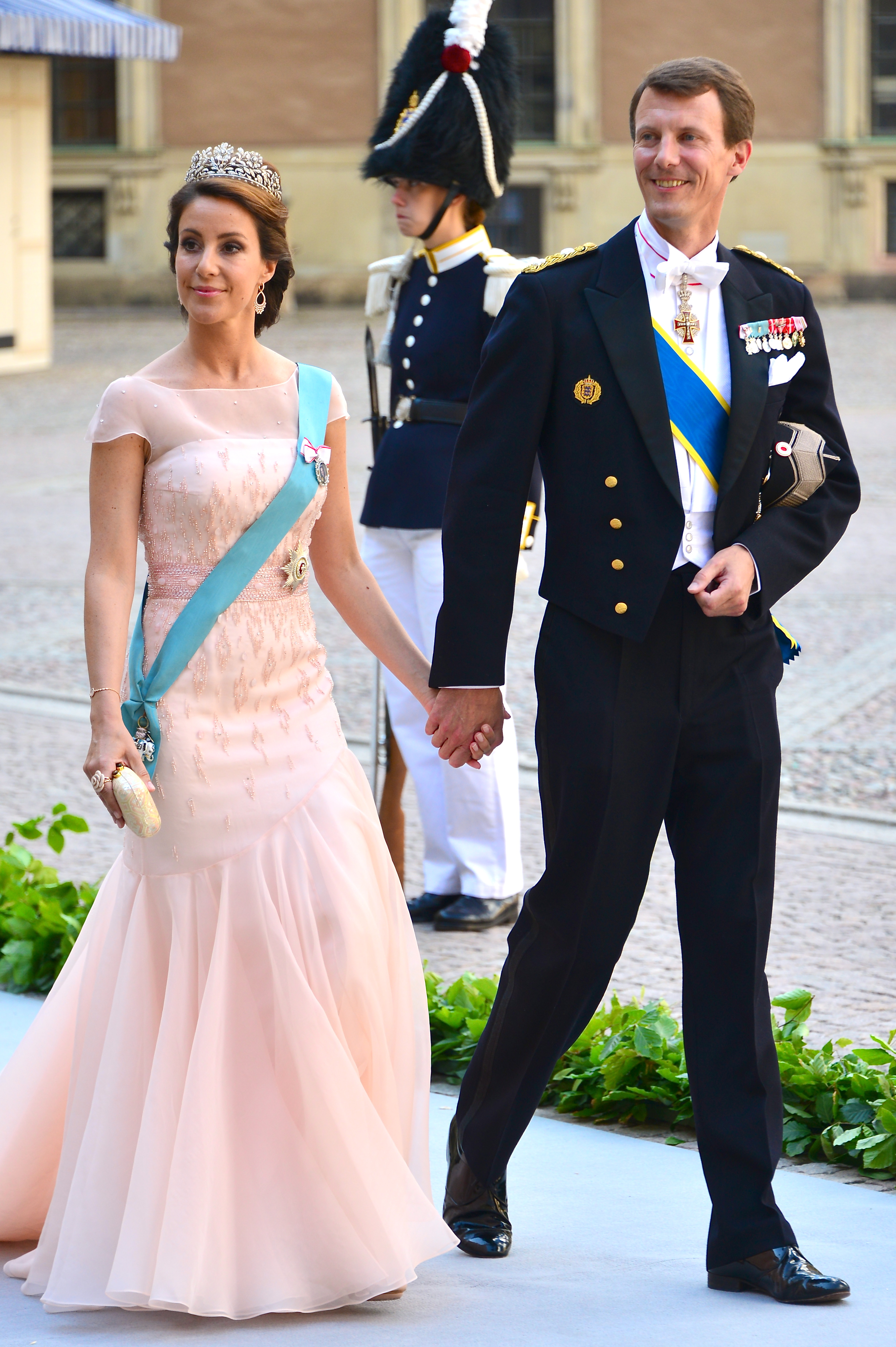 Prince Joachim and Princess Marie of Denmark on the way to the castle church at the Royal Palace in Stockholm before the wedding between Princess Madeleine and Christopher O'Neill June 8, 2013.